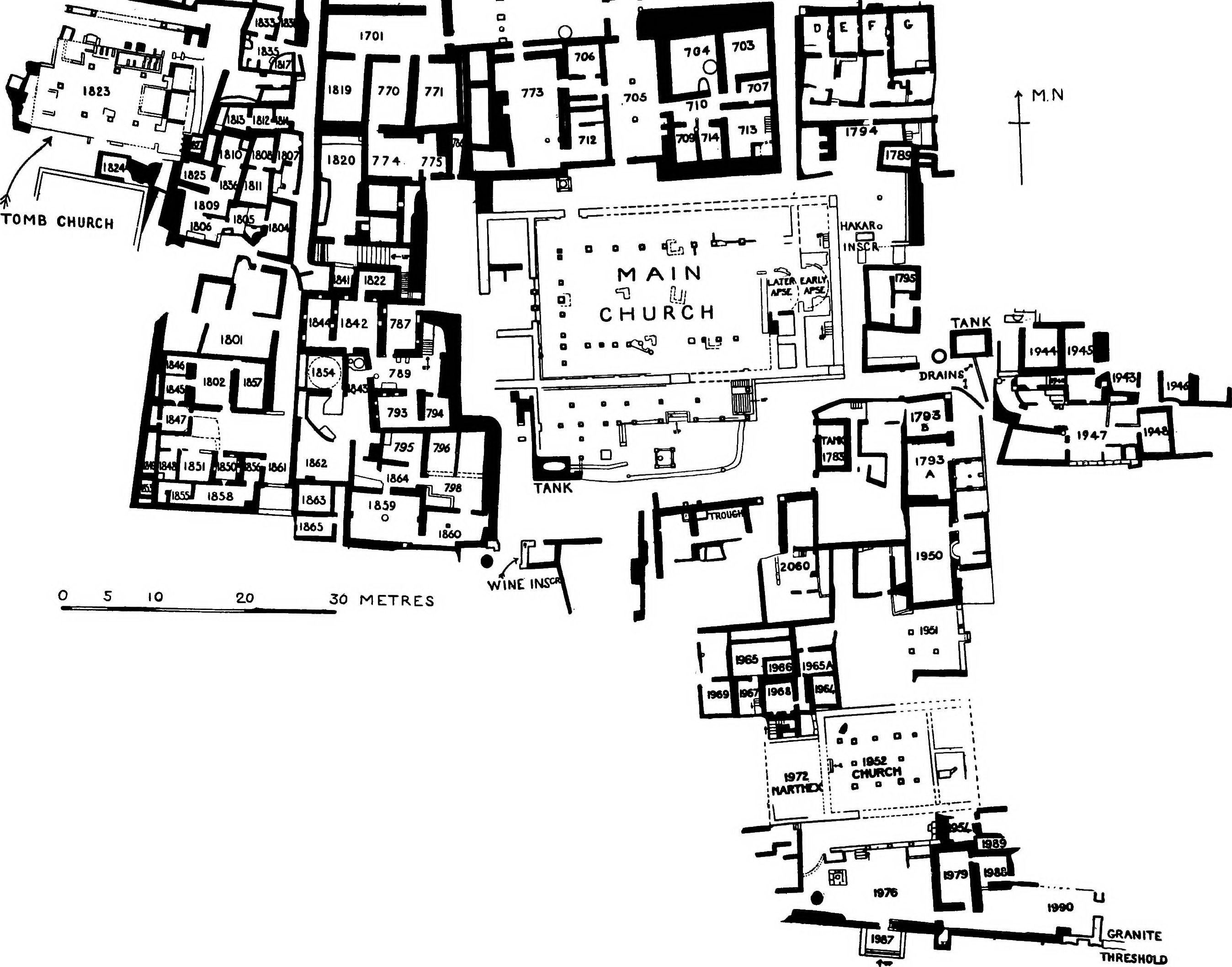 Title: Excavations of Saqqara (1908-9, 1909-10): The Monastery of Apa Jeremias Year: 1912 (1910s) Authors: Quibell, James Edward, 1867-1935 Thompson, Herbert, Sir, 1859-1944, ed Egypt. Maṣlaḥat al-Āthār Subjects: Dayr Apa Jeremiah (Ṣaqqārah, Egypt) Publisher: Le Caire, Impr. de l'Institut français d'archéologie orientale Text Appearing Before Image: PLAN OFM PI. I. Text Appearing After Image: 3TERY. EXCAVATIONS AT SAQQARA, T. IV. PI. II L...I....I I I I